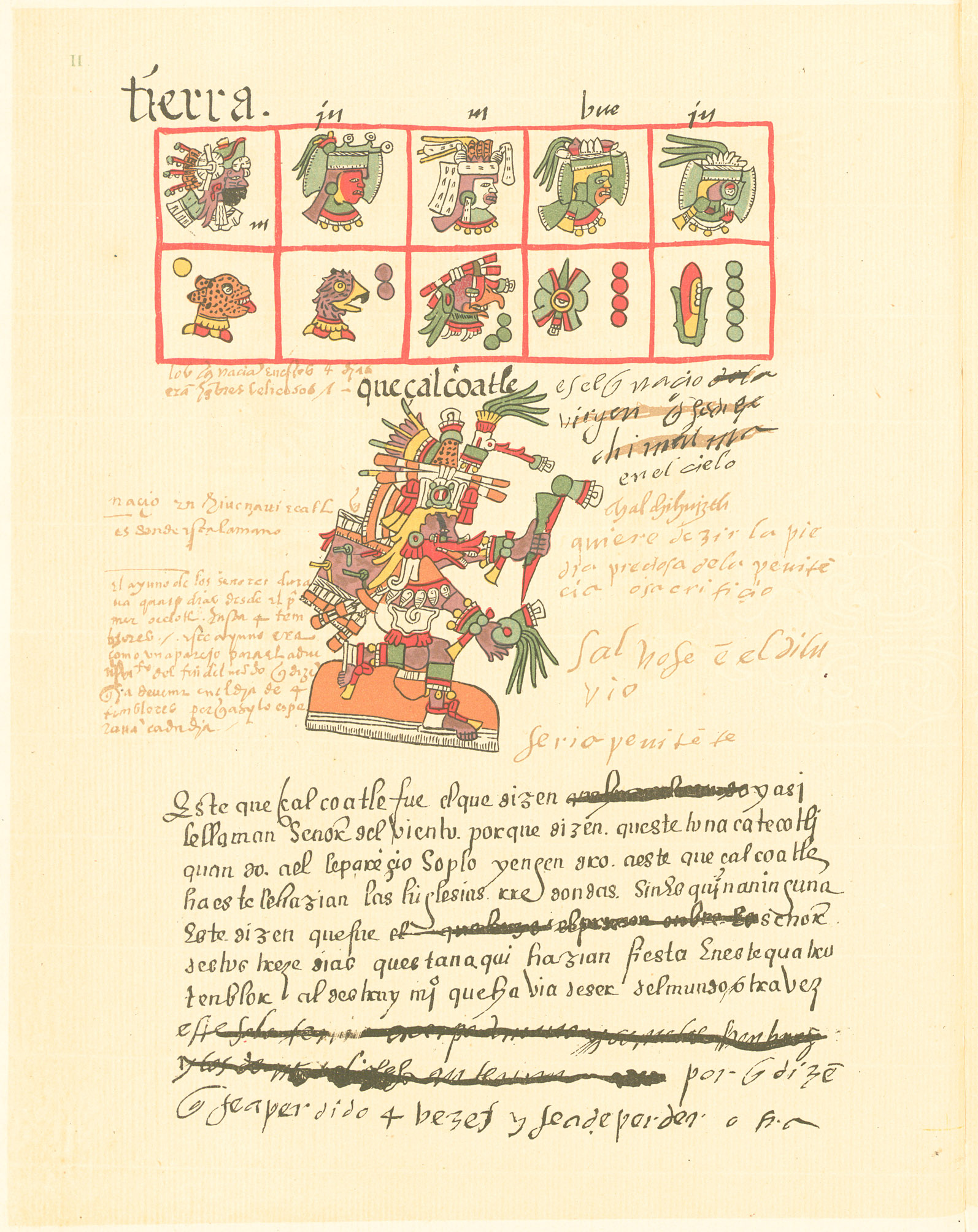 Codex Telleriano-Remensis, Folio 8v (Loubat edition, 1901).